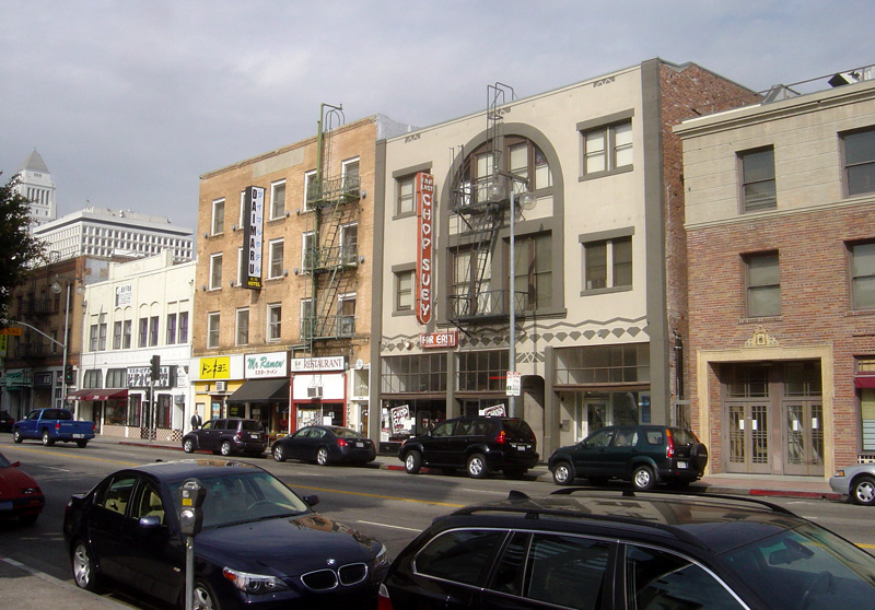 The Far East Café, a landmark 1896 Beaux-Arts building in Los Angeles' Little Tokyo neighborhood. It was recently the subject of a $3.8 million restoration that received county, state, and federal funds. Photo taken by Bobak Ha'Eri, on November 11, 2006. Please observe license and properly cite in use outside Wikipedia.